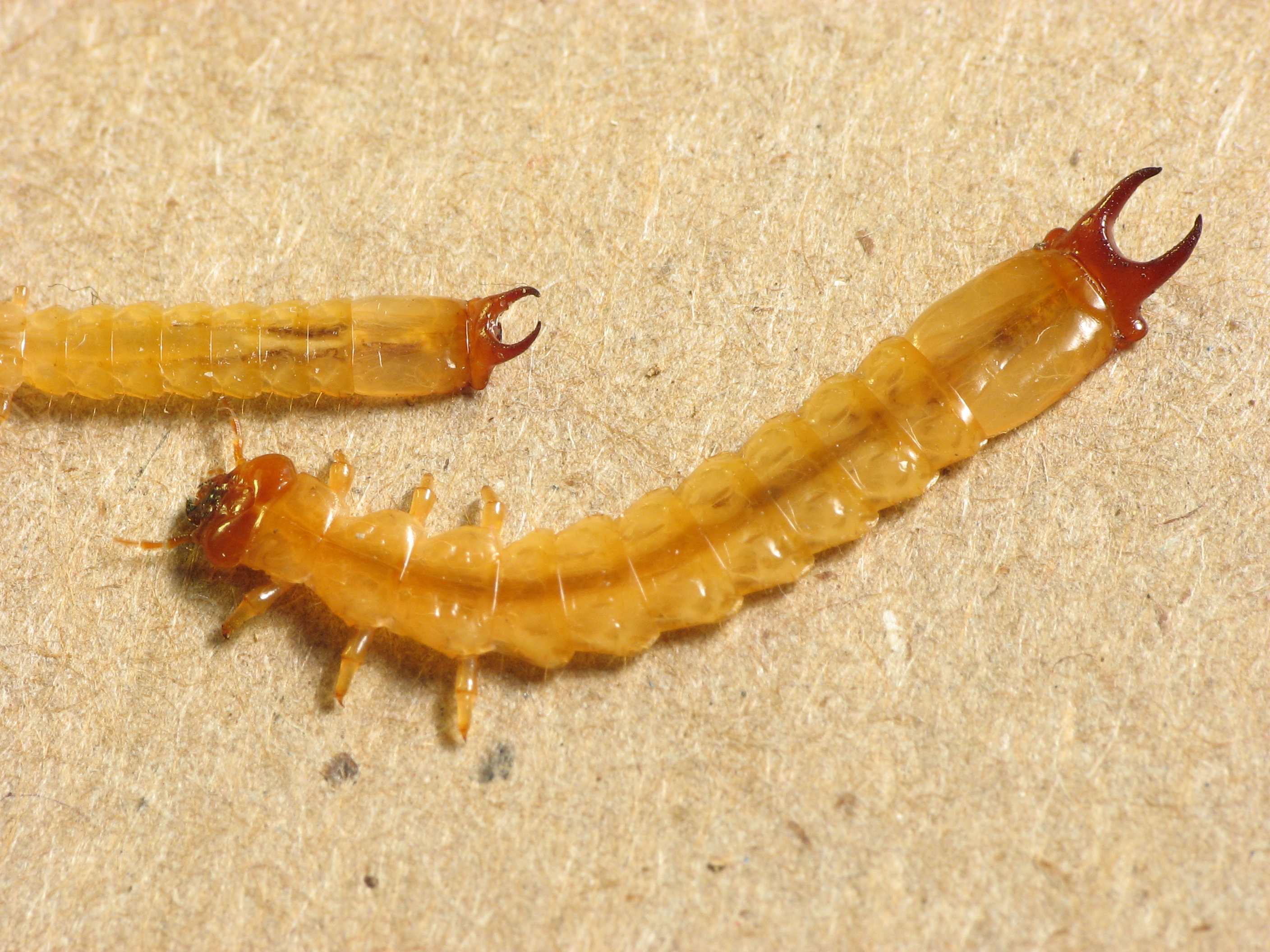 Larvae of Dendroides canadensis. 20 mm. Pennypack Restoration Trust, Montgomery County, Pennsylvania, USA. March 22, 2009.